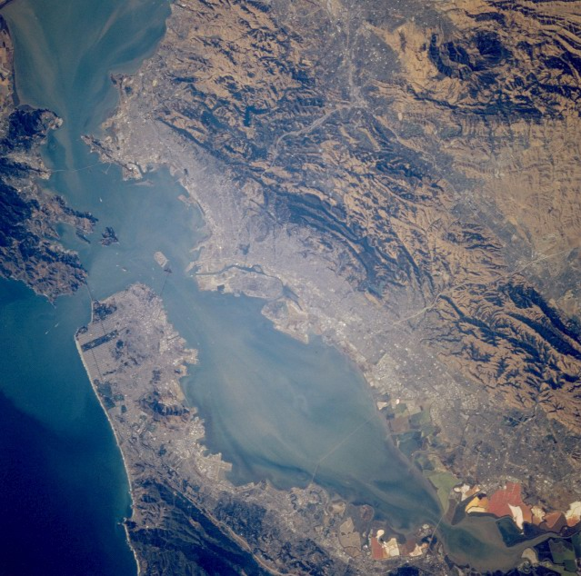 San Francisco Bay Area, California, USA - September 1994 image description here